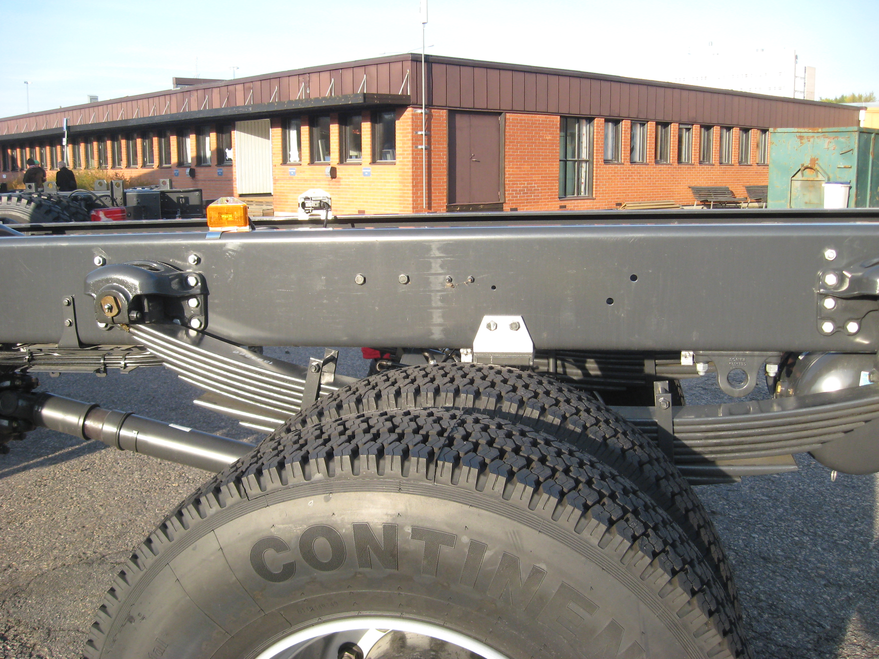 Leaf springs on a Scania P420 4x4HHZ3900.